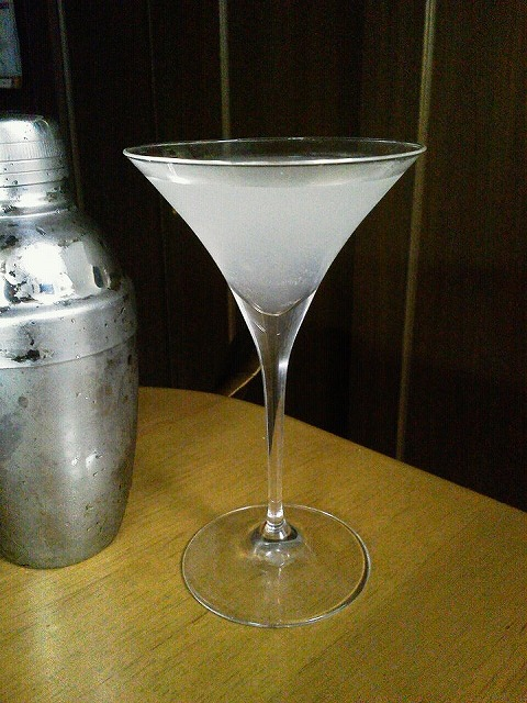 White Lady (cocktail)